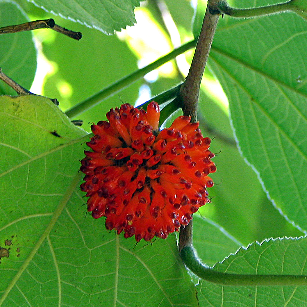 Aggregate fruit of Broussonetia in Budapest